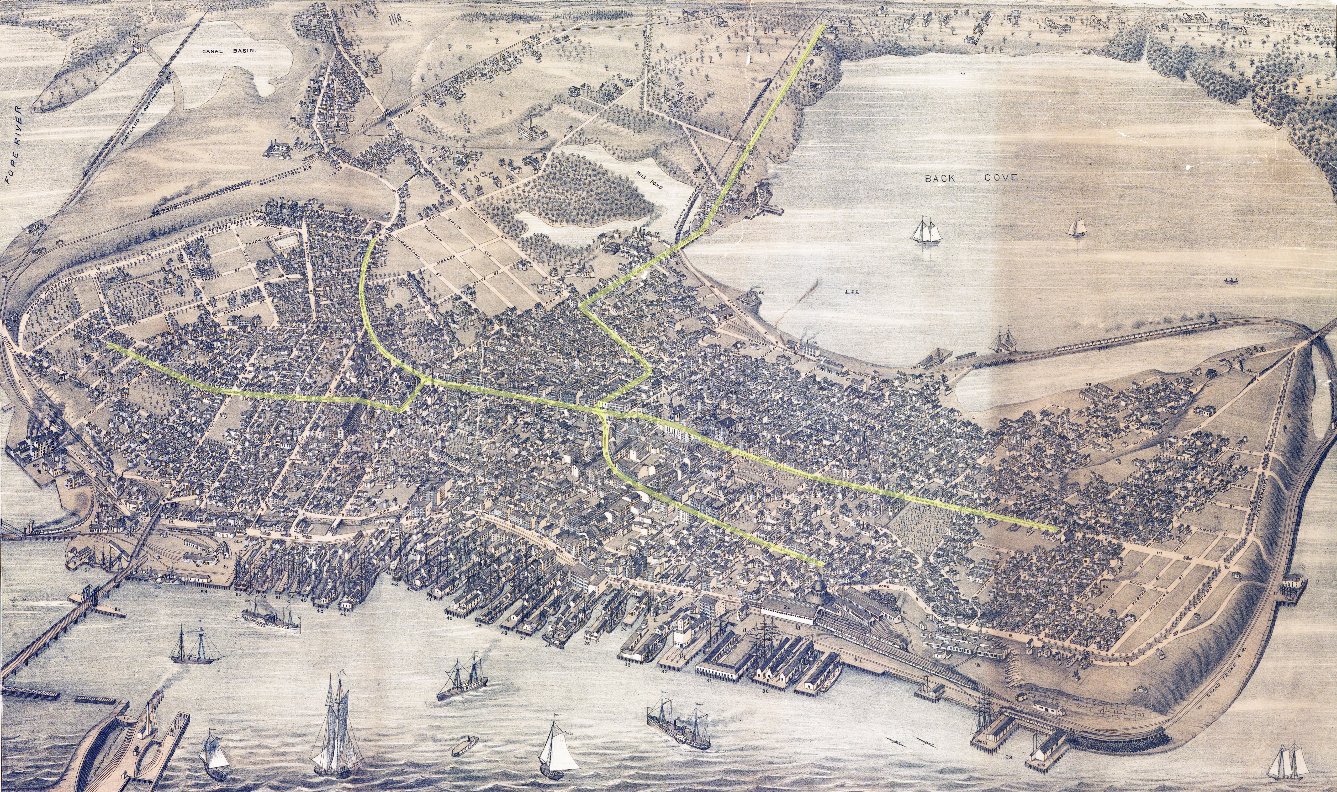 The Routes of the Portland, Maine horse rail shortly after its opening on a bird's eye view of the city from 1876